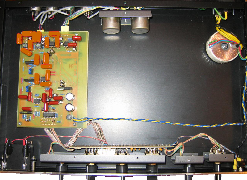 This is a real SSL compressor (one rack size unit).